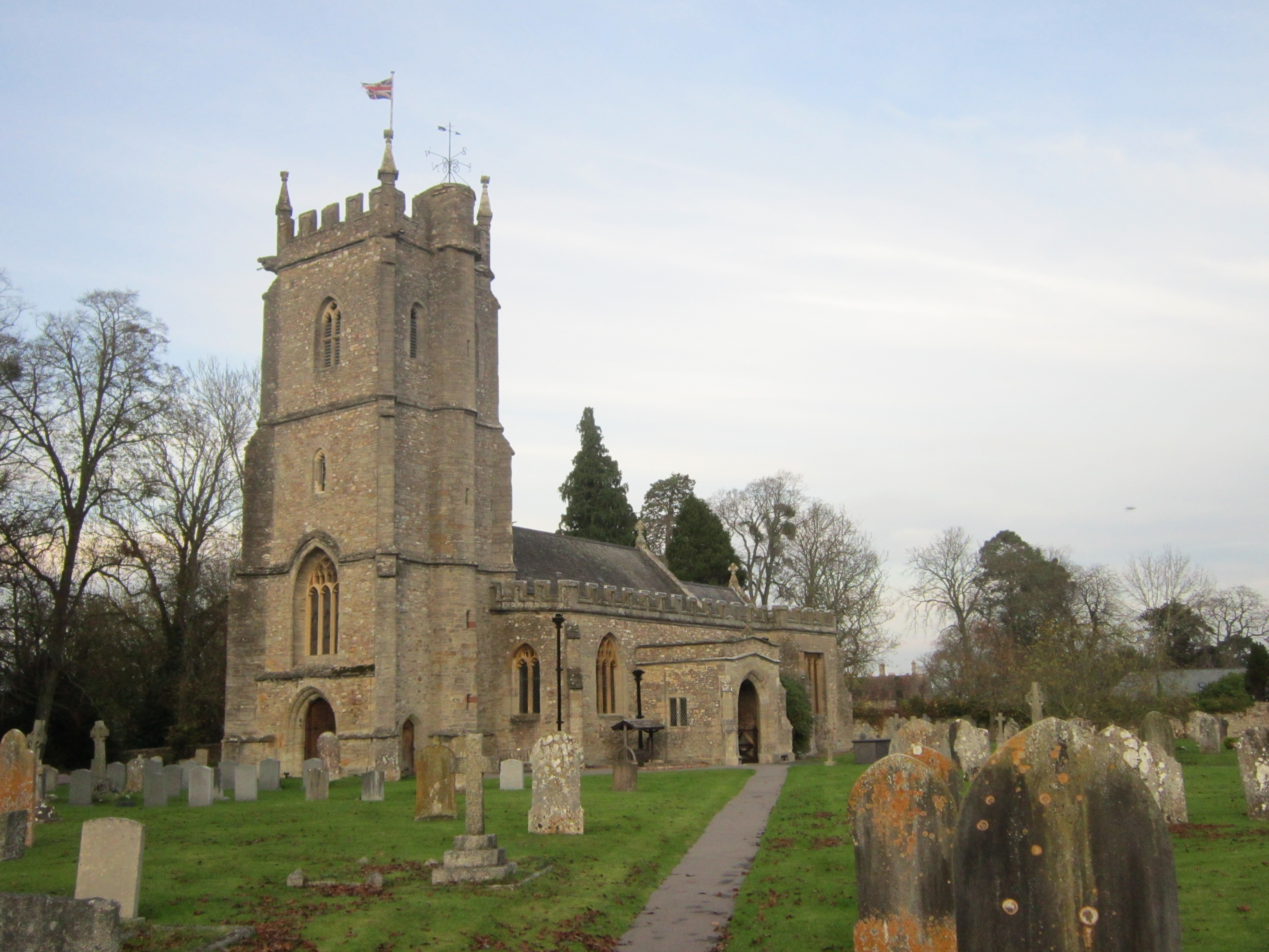 St Giles' church, Bradford on Tone